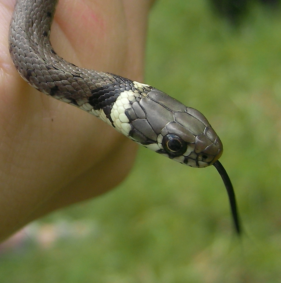 Grass snake, Natrix natrix, Subspecies natrix. Juvenile (2009). Found: Germany, 57258 Freudenberg.